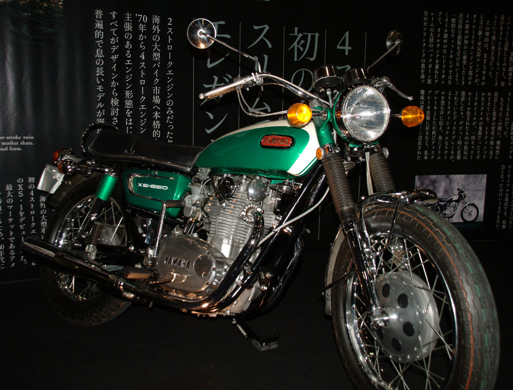 Yamaha XS650